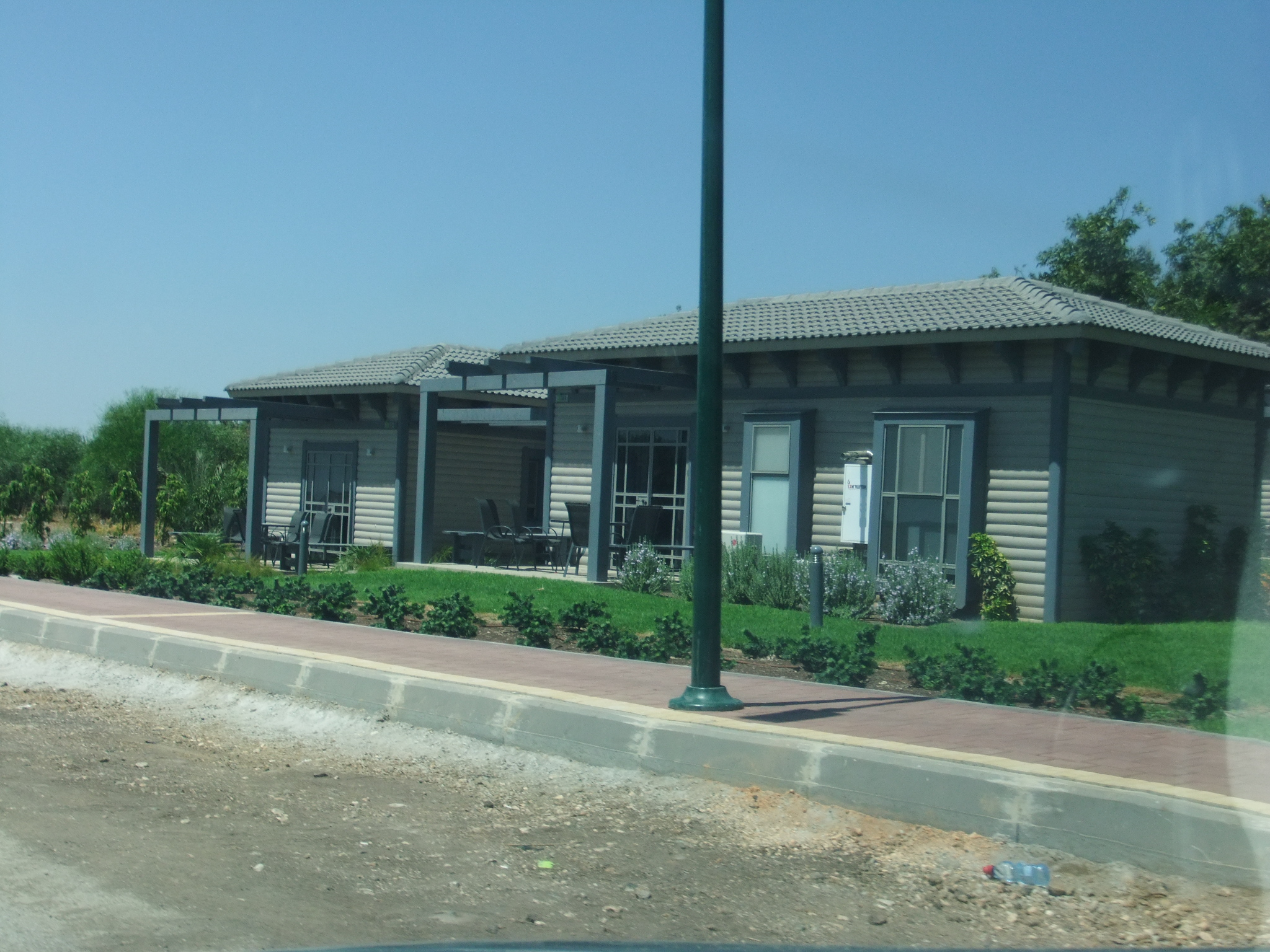 Tsimers in Afik